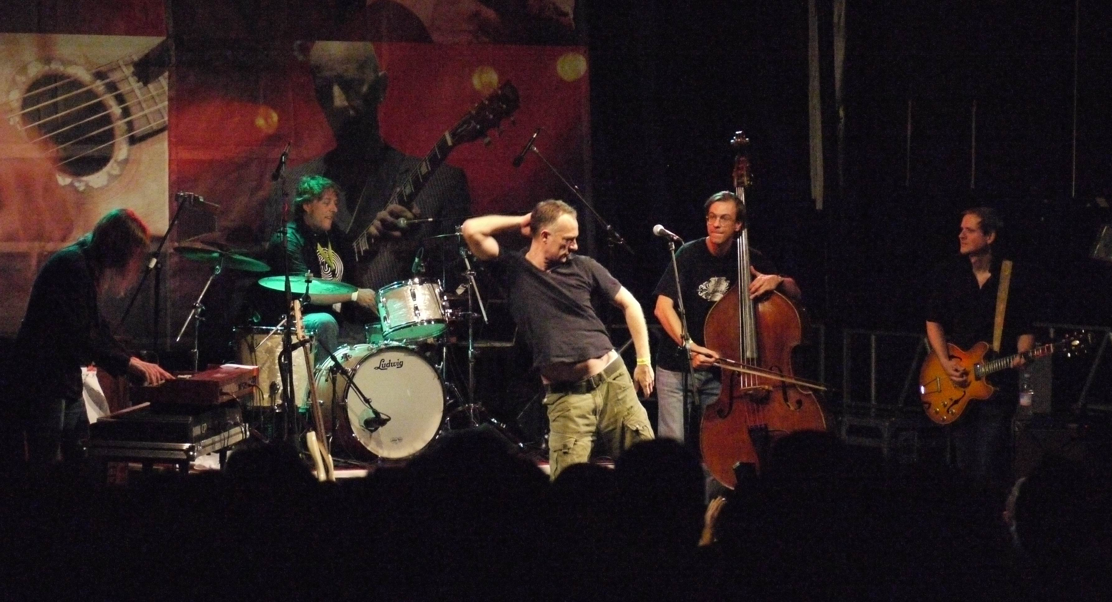 Christoph Süß & Band at Bardentreffen 2010 in Nuremberg